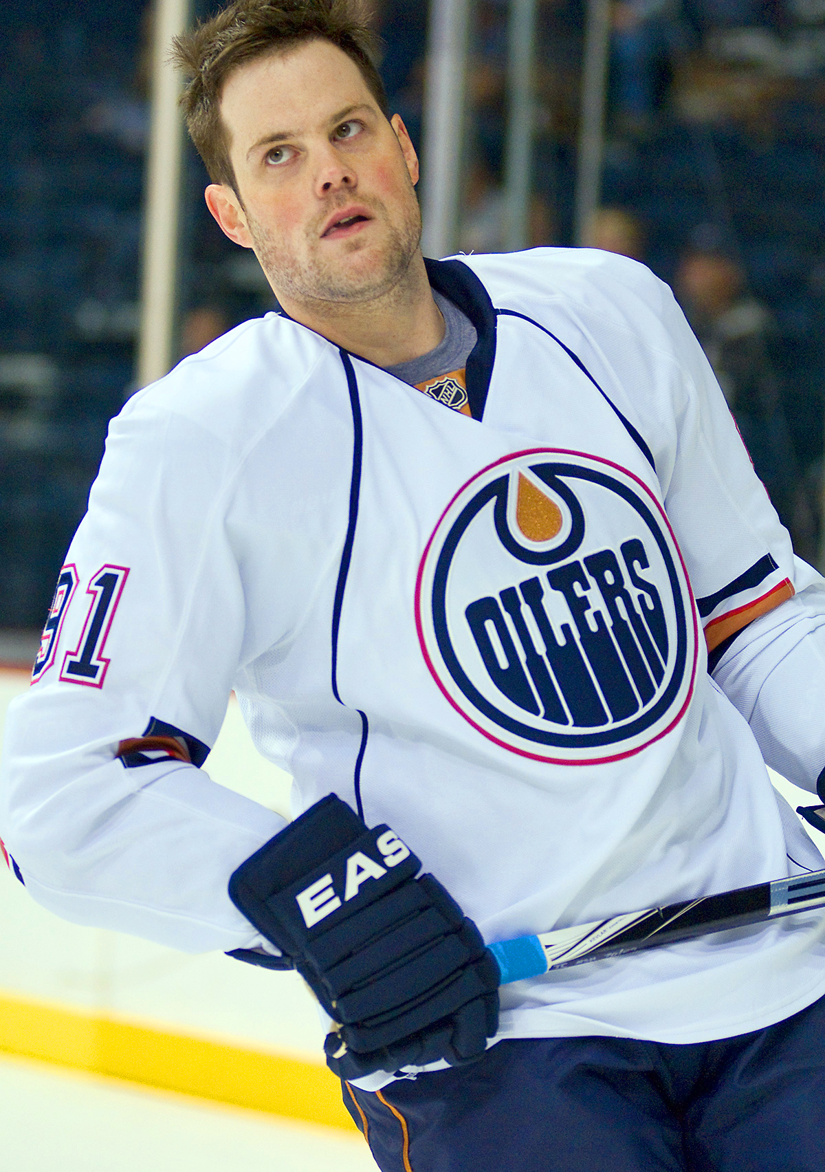 Mike Comrie, during pregame warm-ups. Preds vs Edmonton 1:6 October 12, 2009